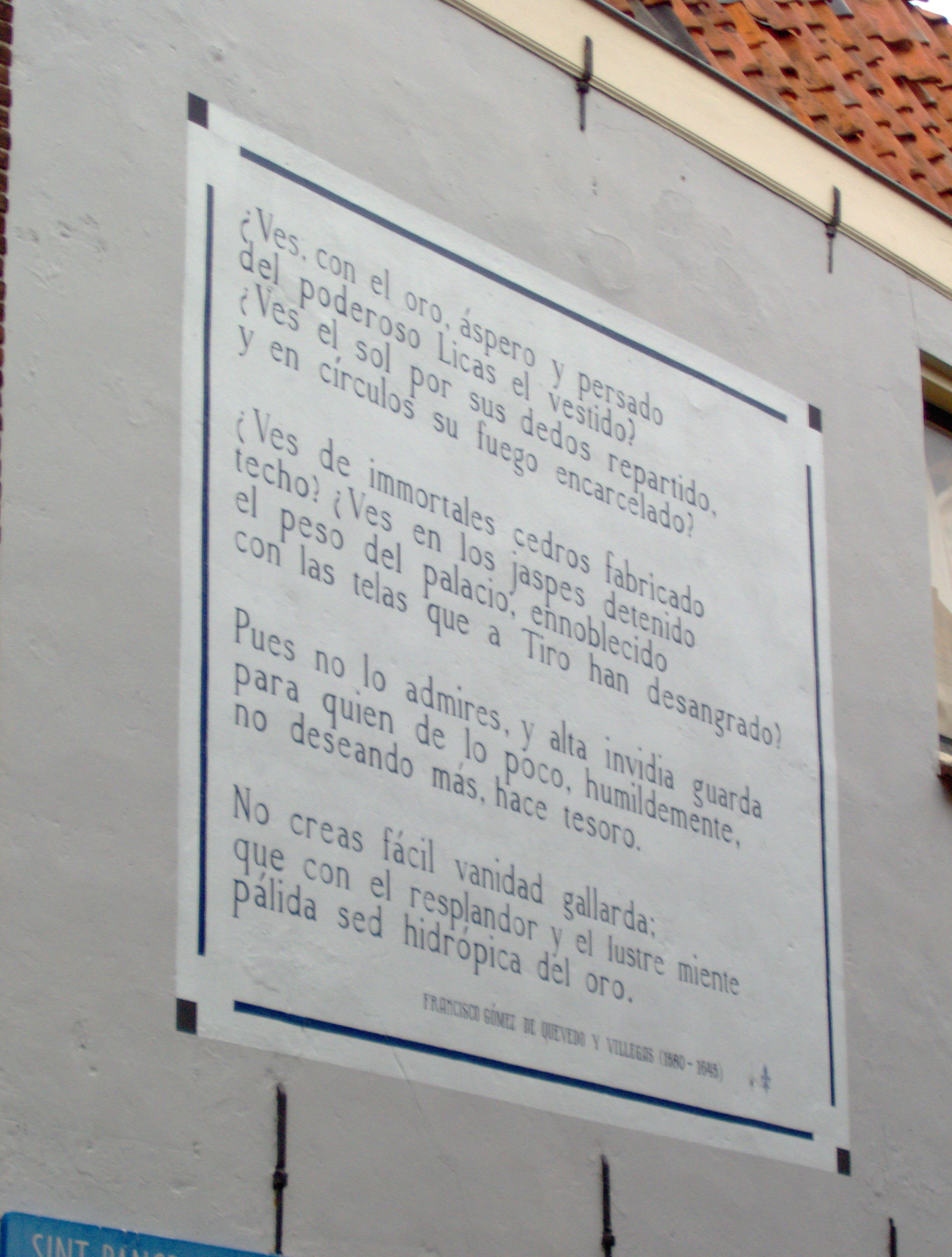 The poet ¿Ves, con el oro of the Spanish writer Francisco de Quevedo on a wall of the building on the Sint Pancrassteeg 2A, Leiden, The Netherlands